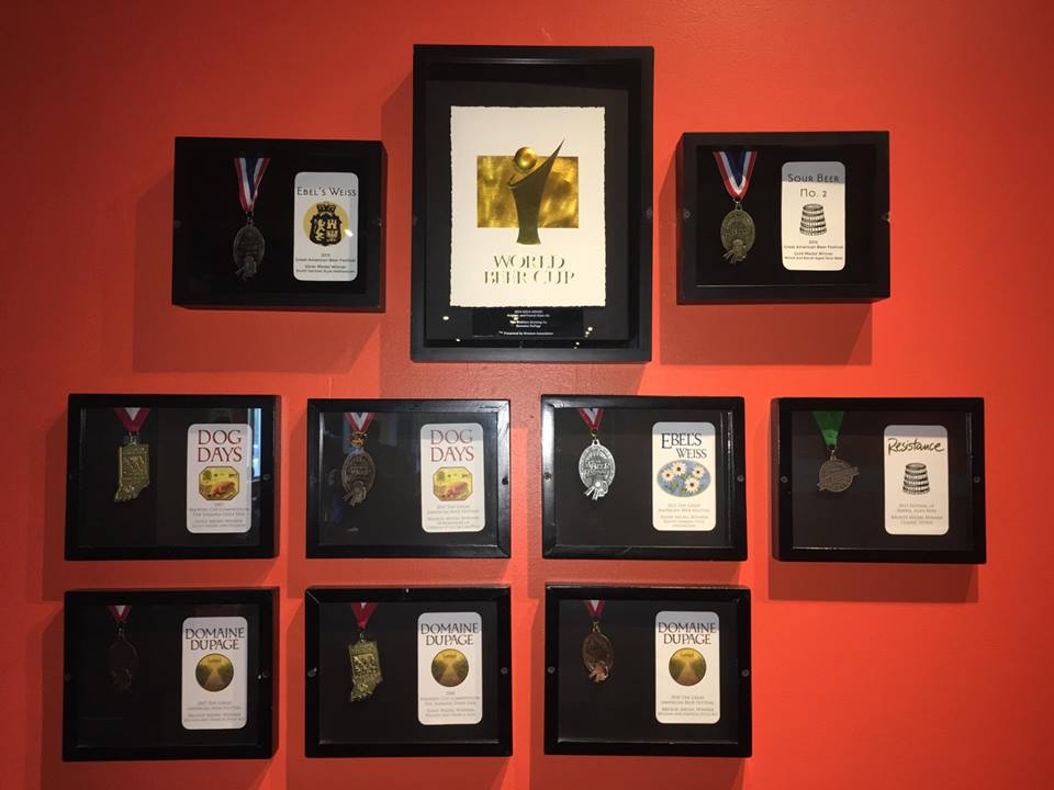 Picture I took at the Two Brothers Warrenville Location.